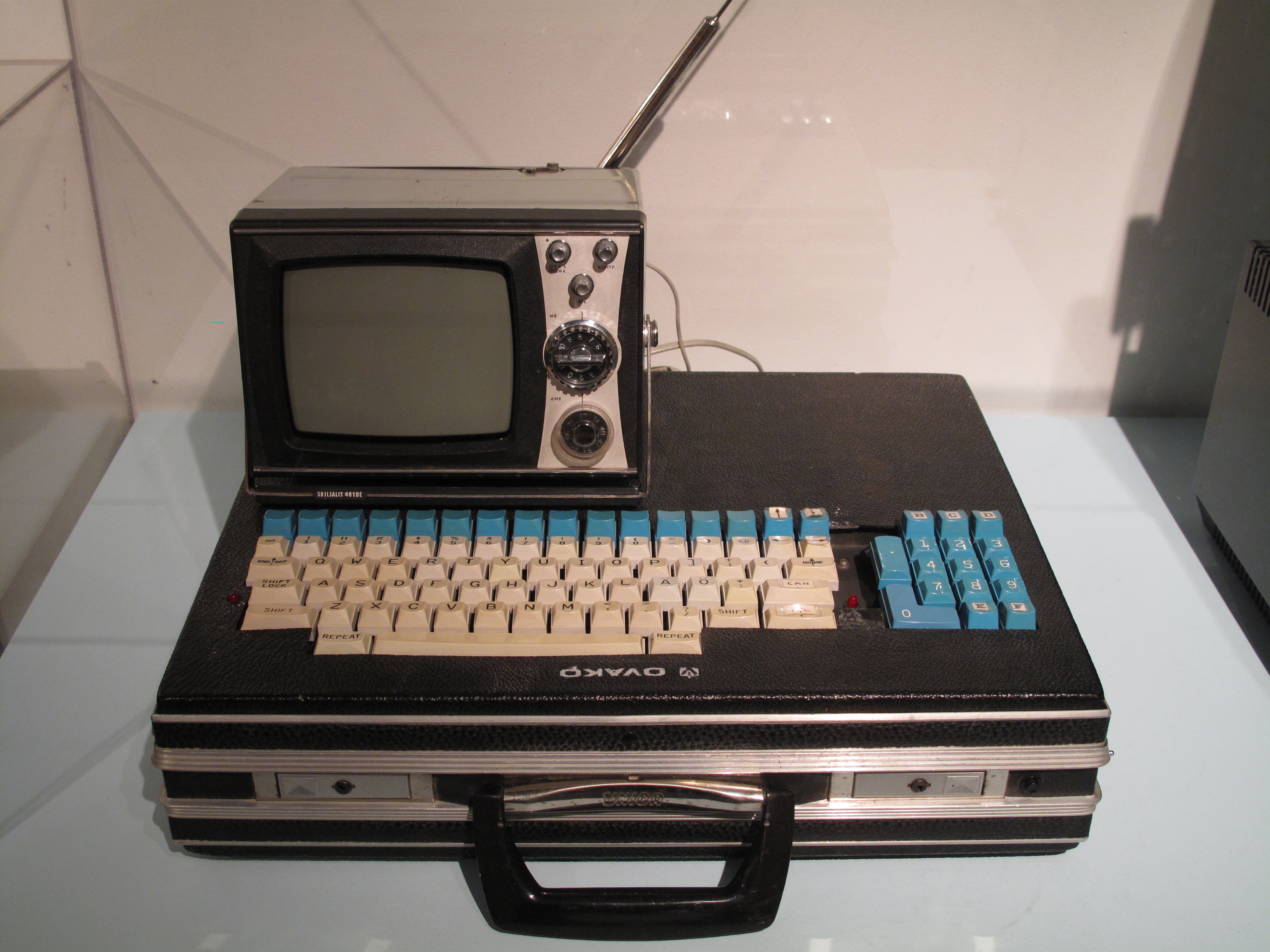 Telmac 1800 microcomputer in Tampere Media Museum Rupriikki. Computer released 1977.